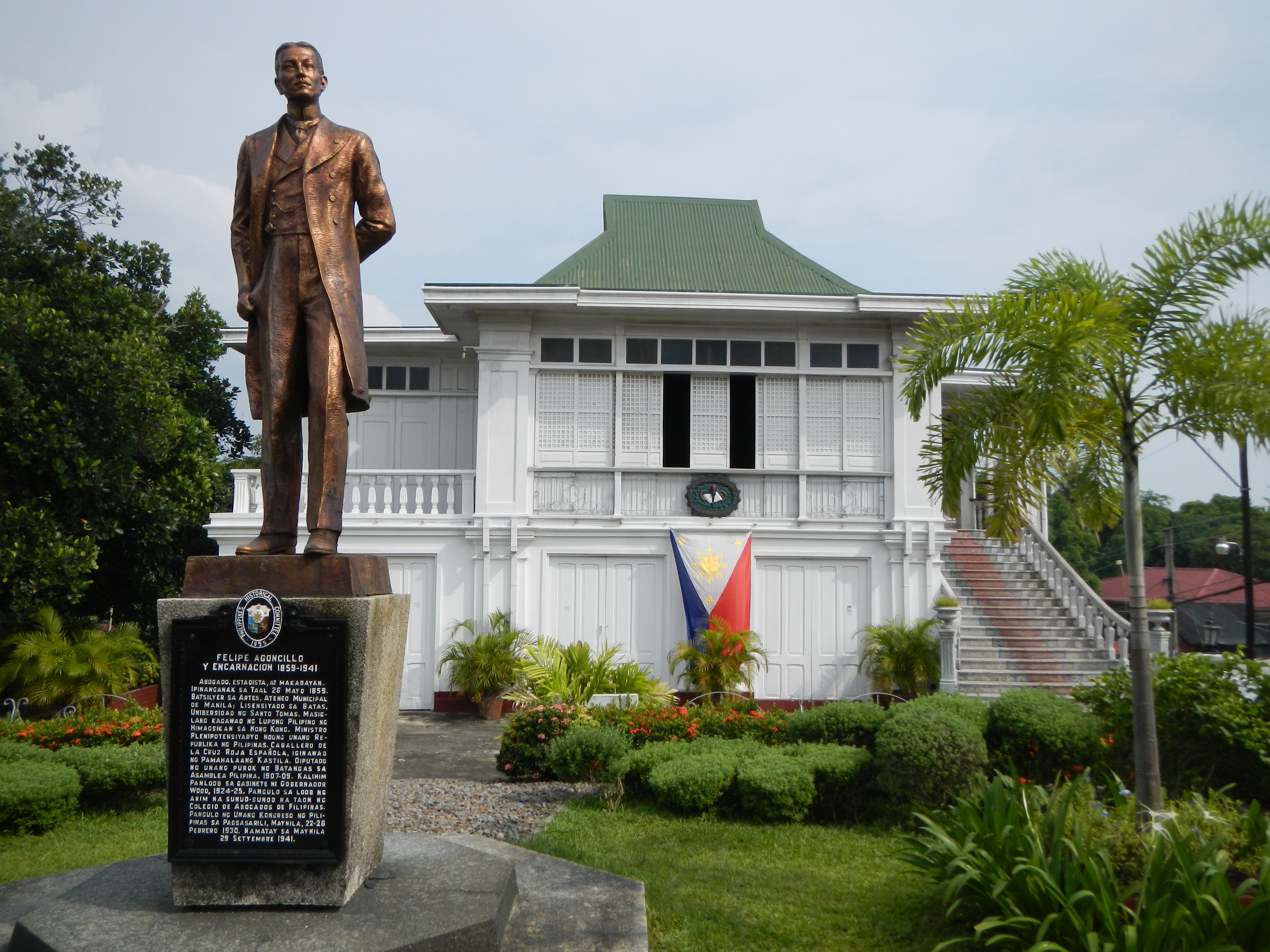 Felipe Agoncillo Ancestral House of Felipe Agoncillo[1] (May 26, 1859 – September 29, 1941) was the Filipino lawyer representative to the negotiations in Paris that led to the Treaty of Paris (1898), ending the Spanish–American War and achieving him the title of "outstanding first Filipino diplomat."[2] [3] [4] Location: Taal, Batangas (Region IV-A) Category: Building Type: House Status: Level II - With Marker Marker Date: 1955 --- Heritage Town – 1572 Casa Real - Municipal Government of Taal, Escuela Pia - Taal Cultural Center, Taal Town Plaza & Basketball Court and the 1923 Rizal College of Taal/beside/adjacent - in front of the --- Basilica de San Martin de Tours (Taal)[5]Basilica de San Martin de Tours is a Minor Basilica in the town of Taal, Batangas in the Philippines, within the Archdiocese of Lipa. It is considered to be the largest church in the Philippines and in Asia, standing 96 metres (315 ft) long and 45 metres (148 ft) wide. St. Martin of Tours is the patron saint of Taal, whose fiesta is celebrated every November 11. It is under Metropolitan Archbishop Ramon Cabrera Argüelles of Lipa City, Batangas[6] It belongs to the [7]Roman Catholic Archdiocese of Lipa - Vicariate II: Vicariate of Saint John Mary Vianney. Taal, Batangas[8]Taal is a second class municipality in the province of Batangas, Philippines. According to the latest census, it has a population of 51,459 people in 8,451 households.